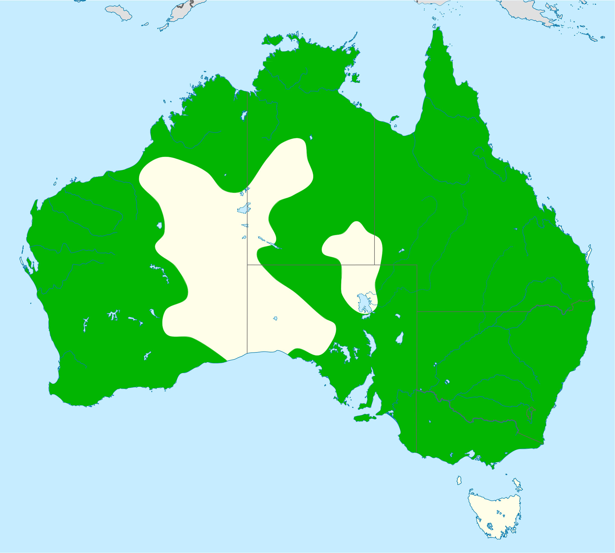 Distribution map of the magpie-lark (Grallina cyanoleuca) This is based on: Birddata: Atlas Distributions Maps: Magpie-lark, Birdlife Australia Schodde, R.; Mason, I.J. (1999). Directory of Australian Birds: Passerines. CSRO. p. 509. ISBN 0-643-06456-7. Google Preview of ebook available here. Base map: File:Australia location map.svg